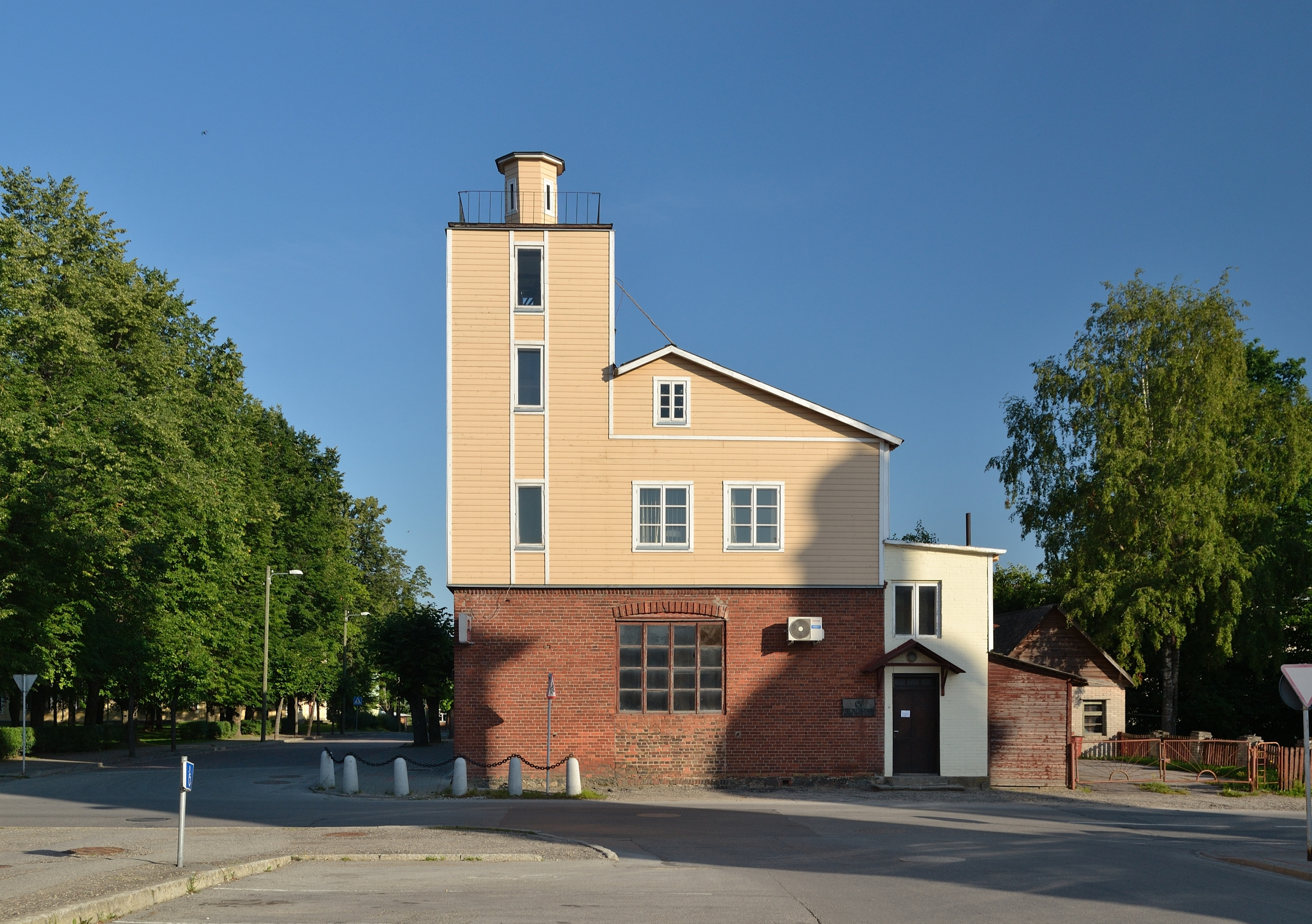 Former fire depot in Võru